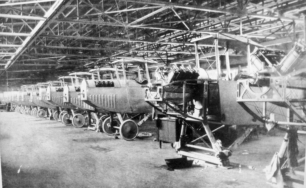 Curtiss JN-4D Jenny repair shop at Payne Field in Mississippi during WW I (1918).